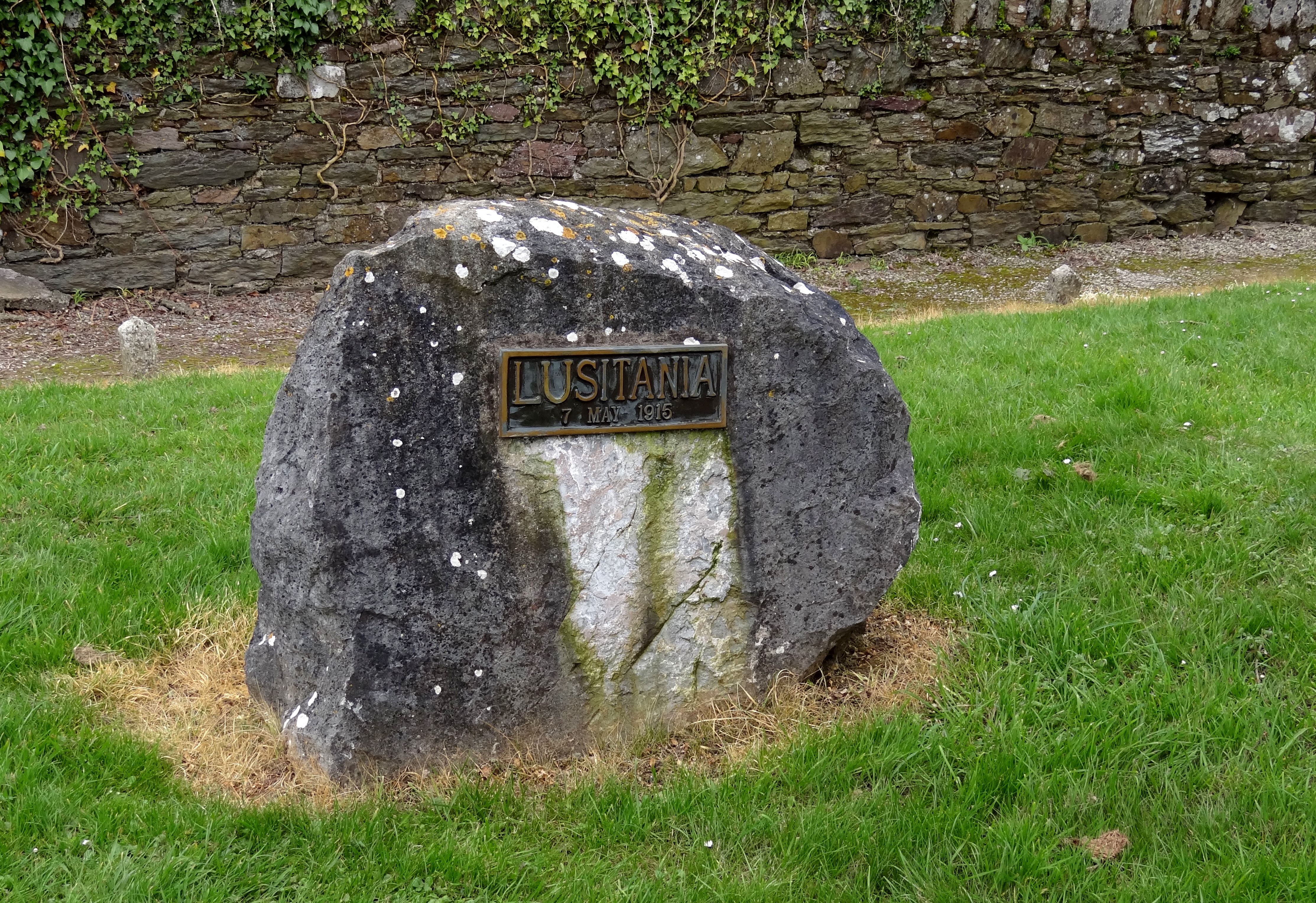 The memorial stone to indicate a grave containing several victims of the Lusitania sinking near Cobh in 1915.